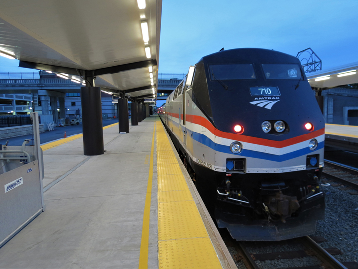 Amtrak dual-mode locomotive 710 at Albany-Rensselaer after evening from from GCT during 2017 Penn Station infrastructure renewal work.